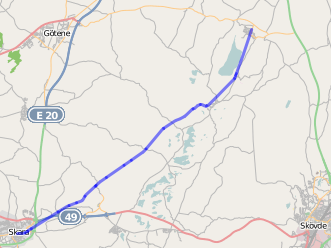 Map of old railway line Skara-Timmersdala